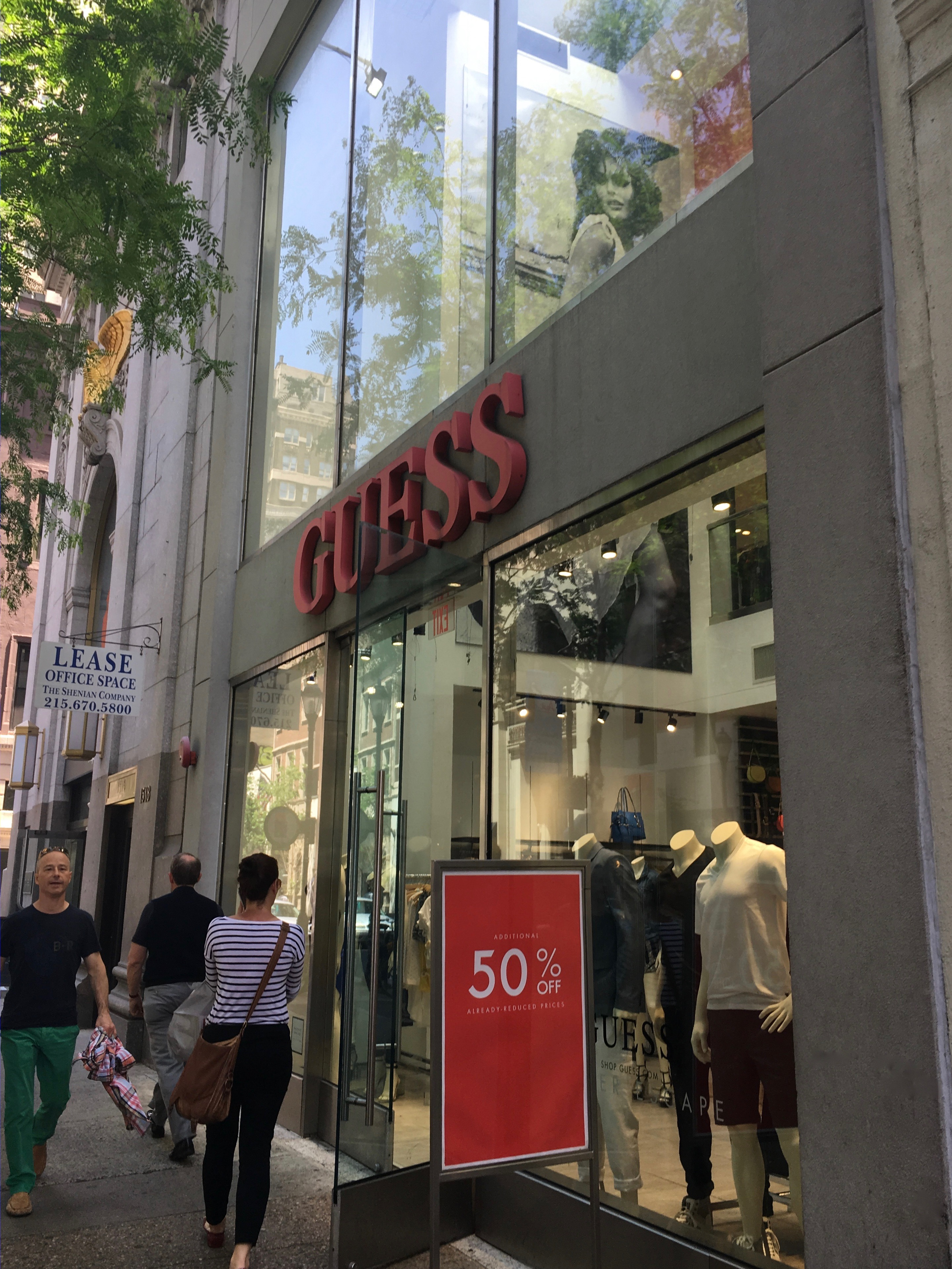 Guess Retail Storefront in Philadelphia, PA.